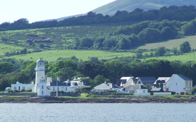 Lighthouse at Toward, Argyll